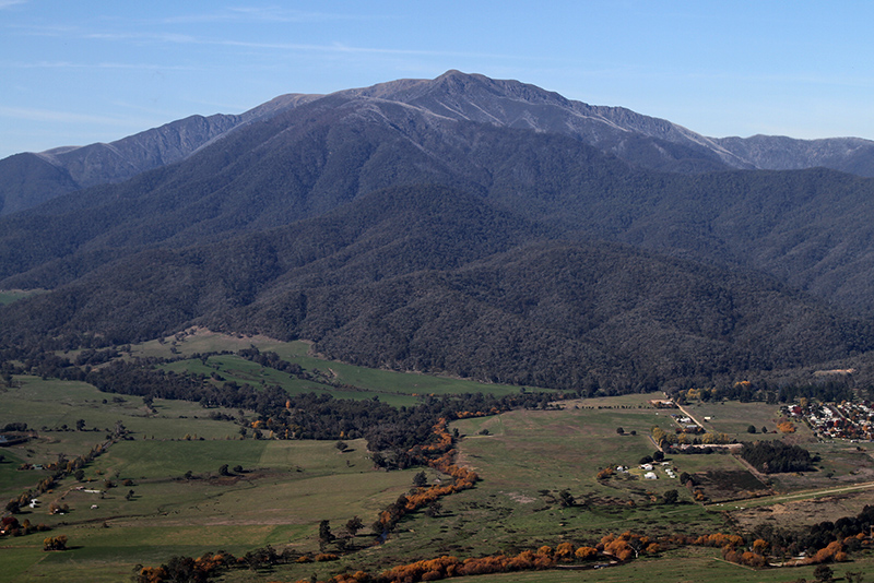 Mount Bogong, at 1,986 metres (6,516 ft) the highest mountain in Victoria. This is the western flank towering above the town of Mount Beauty, taken looking east from Sullivans Lookout on the Tawonga Gap Rd. Victoria, Australia.